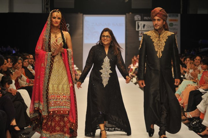 Zainab Chottani with her show stoppers; Nadia Hussain and Adnan Siddiqui at Pakistan Fashion Week